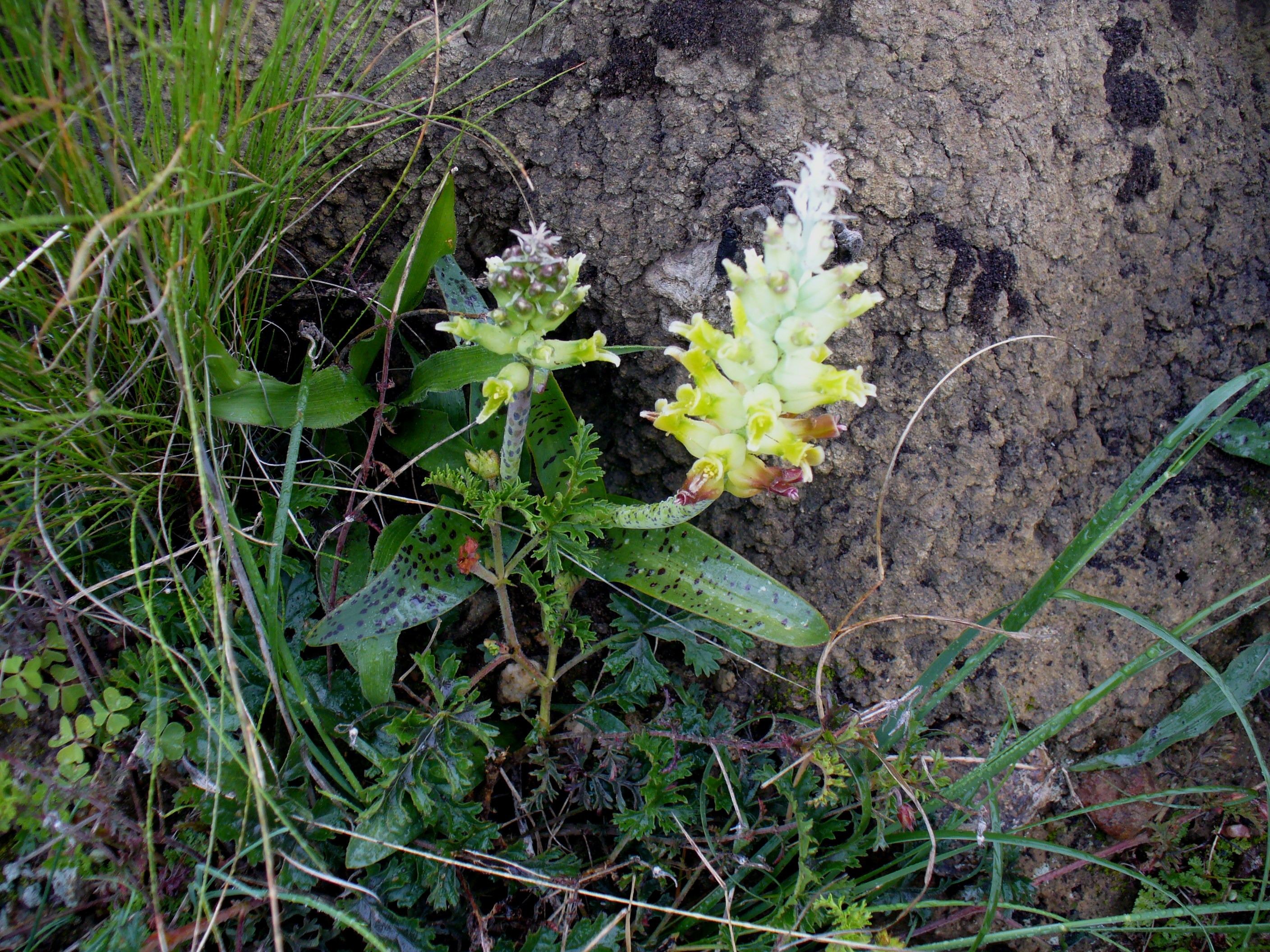 wild hyacinth